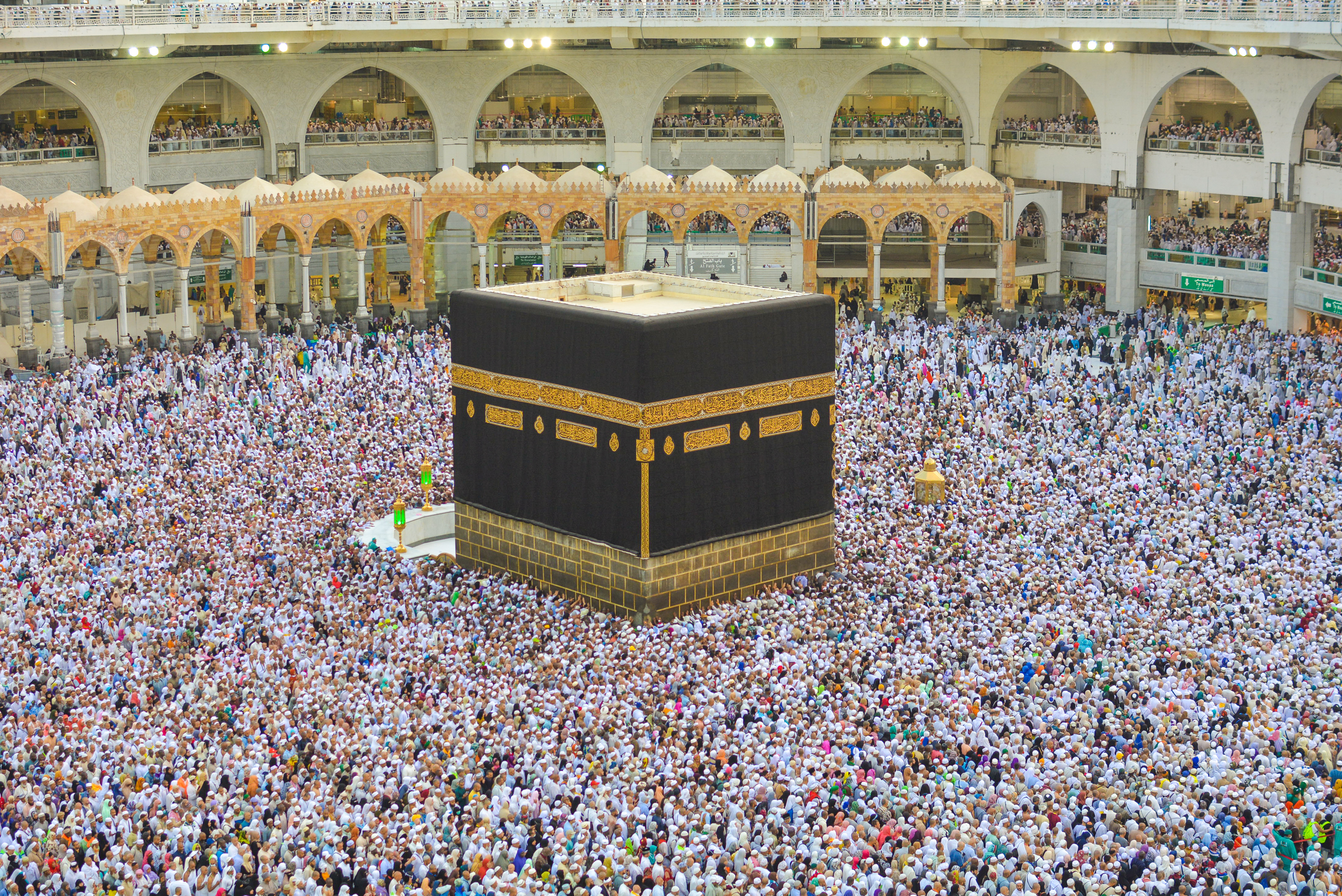 The Kaabah (Kaaba) is located in the Masjid Al-Haram in Makkah (Mecca, Saudi Arabia) during 2018 Hajj Season. Performing hajj is one of the pillars of Islam and required once for those who can afford to do it. Here the hajj pilgrims are performing the 'tawaf' around the Kaabah.